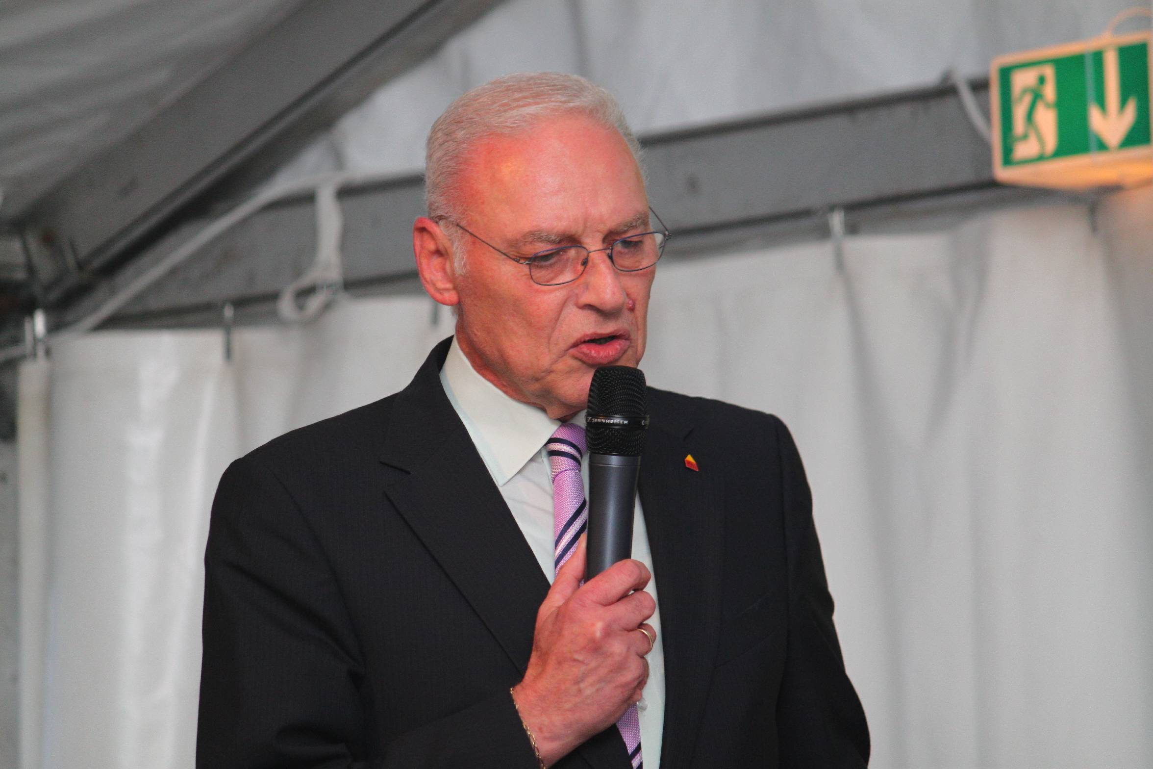 Joachim Brodt, District administrator